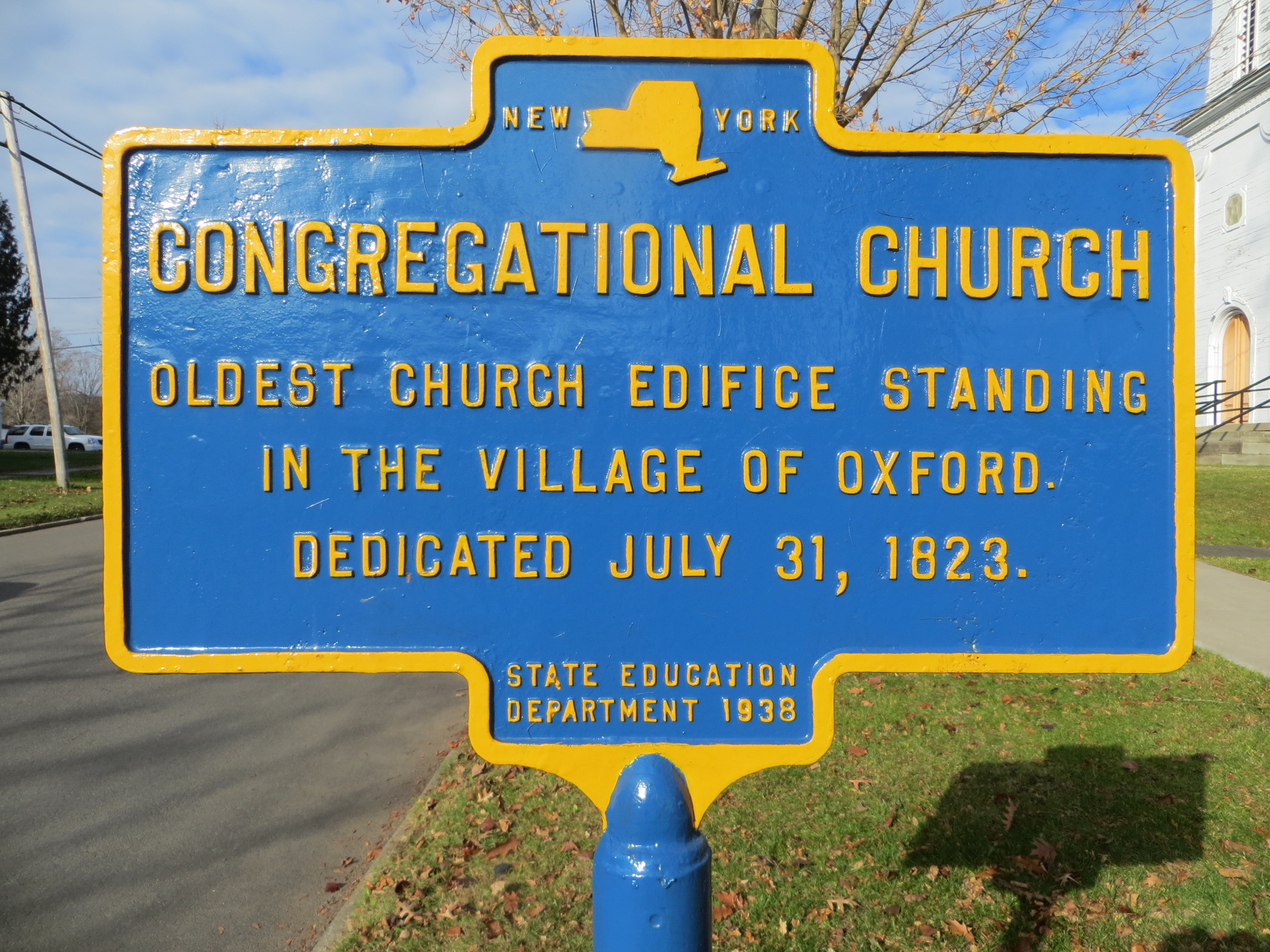 Historic marker of the Congregational Church of Oxford, NY